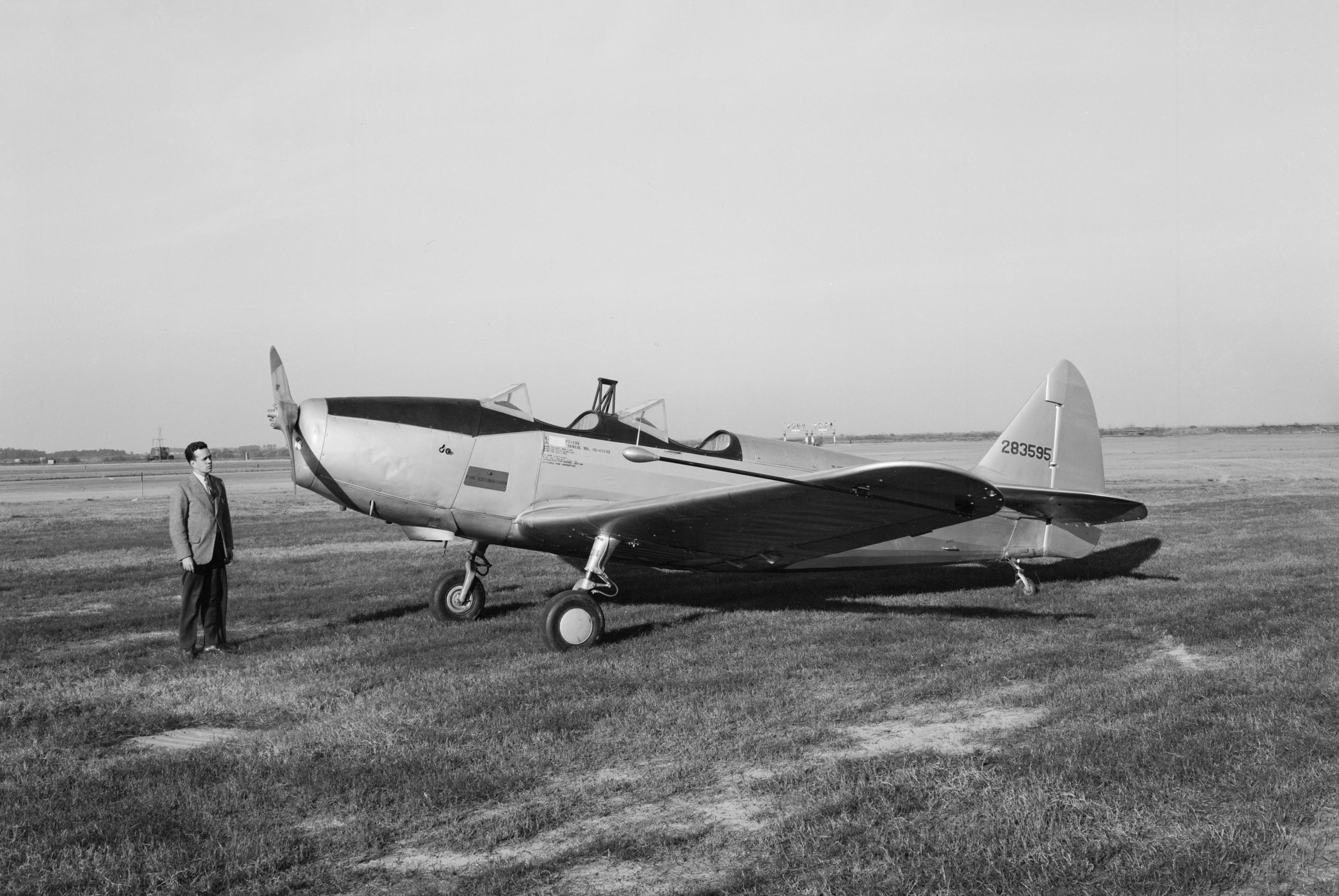 Fairchild PT-19A Cornell: One of the Army Air Force's Primary Trainers, the Fairchild PT-19A Cornell was flown at Langley by the NACA from 1946 until 1951.